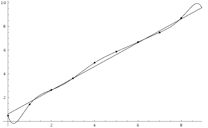 Noisy data with two regression curves, one a good fit and the other an overfit